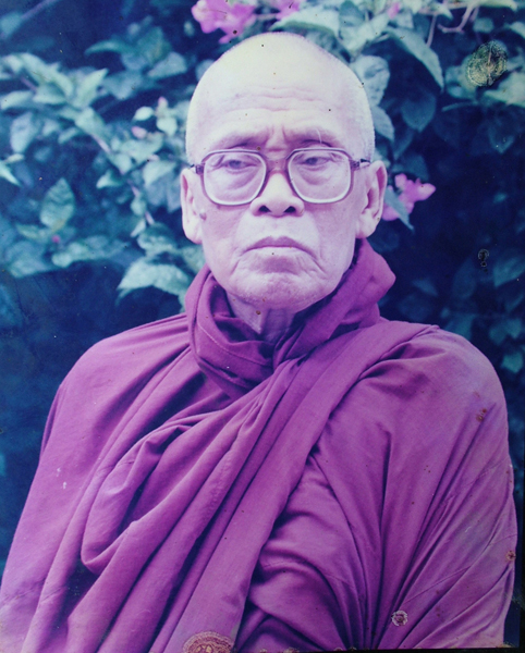 The Sixth Buddhist Council Member, Aggamahasadhammajotikadhajja Rajguru Aggavamsa Mahathera